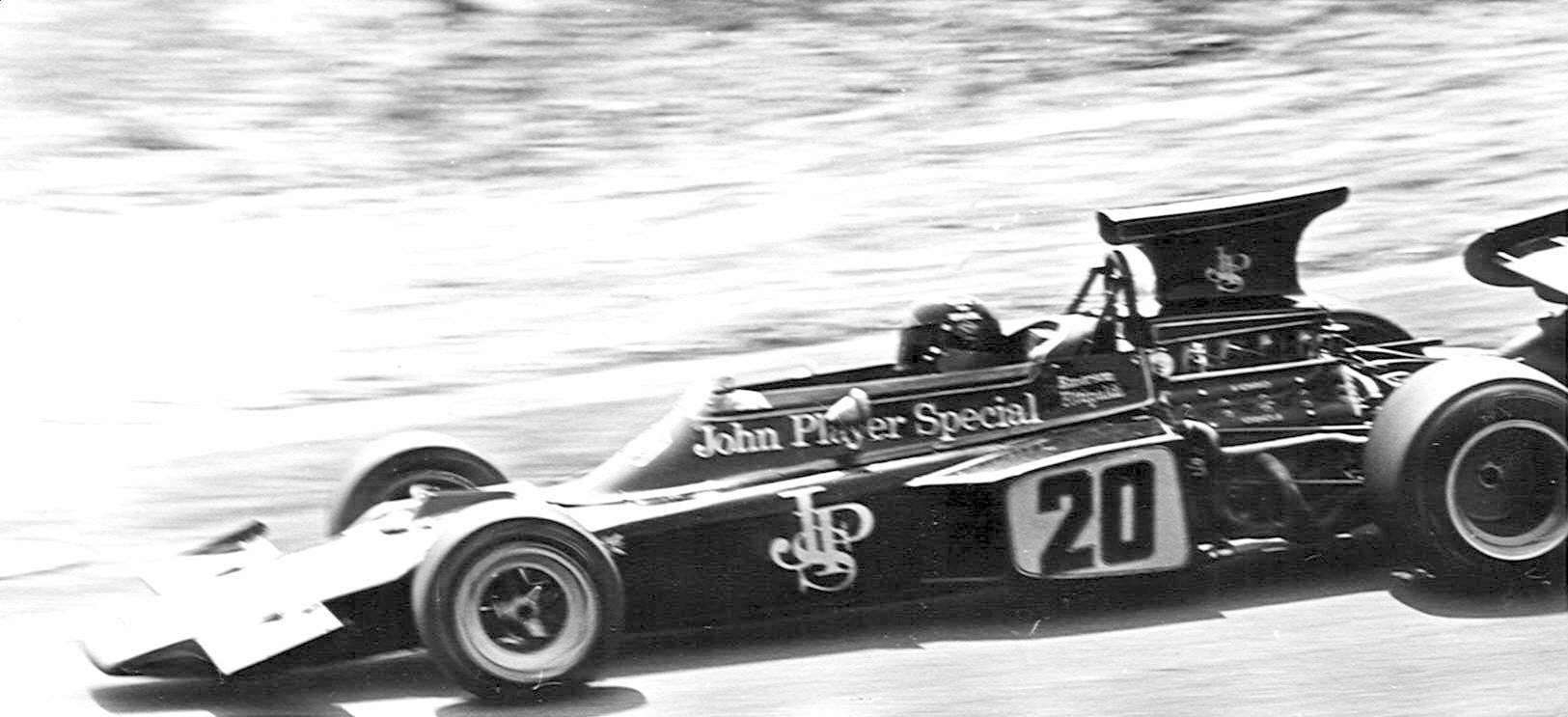 Emerson Fittipaldi at the wheel of John Player Special sponsored Lotus 72D from 1972 Austrian Grand Prix at Österreichring.